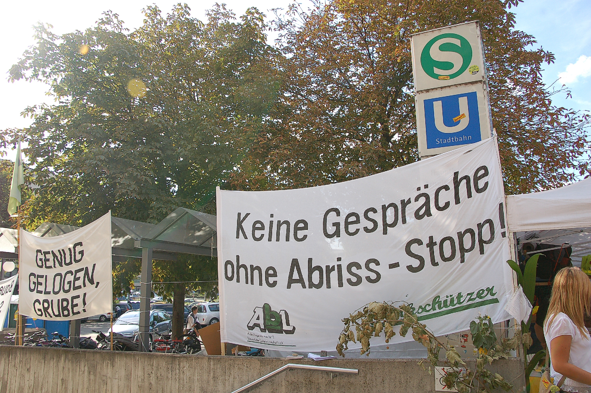 Demonstrations against Stuttgart 21 2010